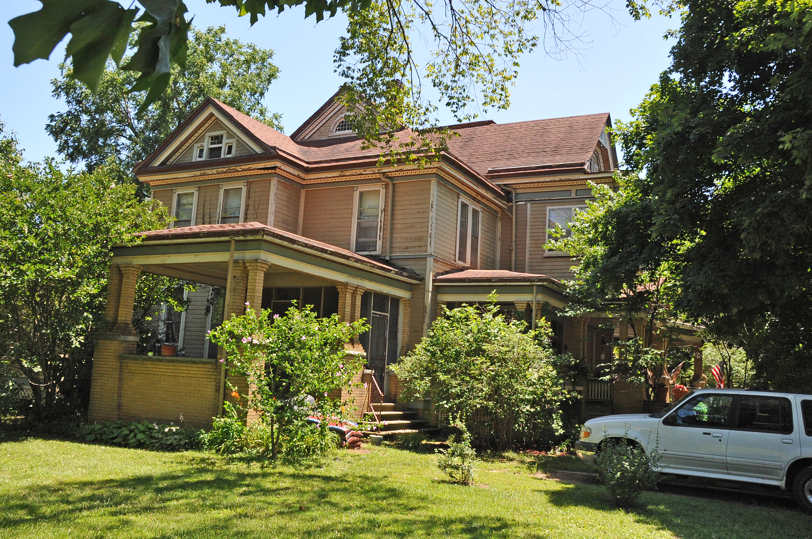 CONSTRUCTED IN 1876-1877 BY WASHINGTON IRVING WALLACE AS ONE OF THE FIRST HIGH-STYLED HOMES TO BE BUILT BETWEEN THE OLD TOWN OF LEBANON AND THE NEW SETTLEMENT AREA ALONG THE TRACKS OF THE ST. LOUIS-SAN FRANCISCO RAILROAD. WALLACE WAS A LAWYER WHO LATER BECAME A STATE SENATOR AND LACLEDE COUNTY’S FIRST MILLIONAIRE